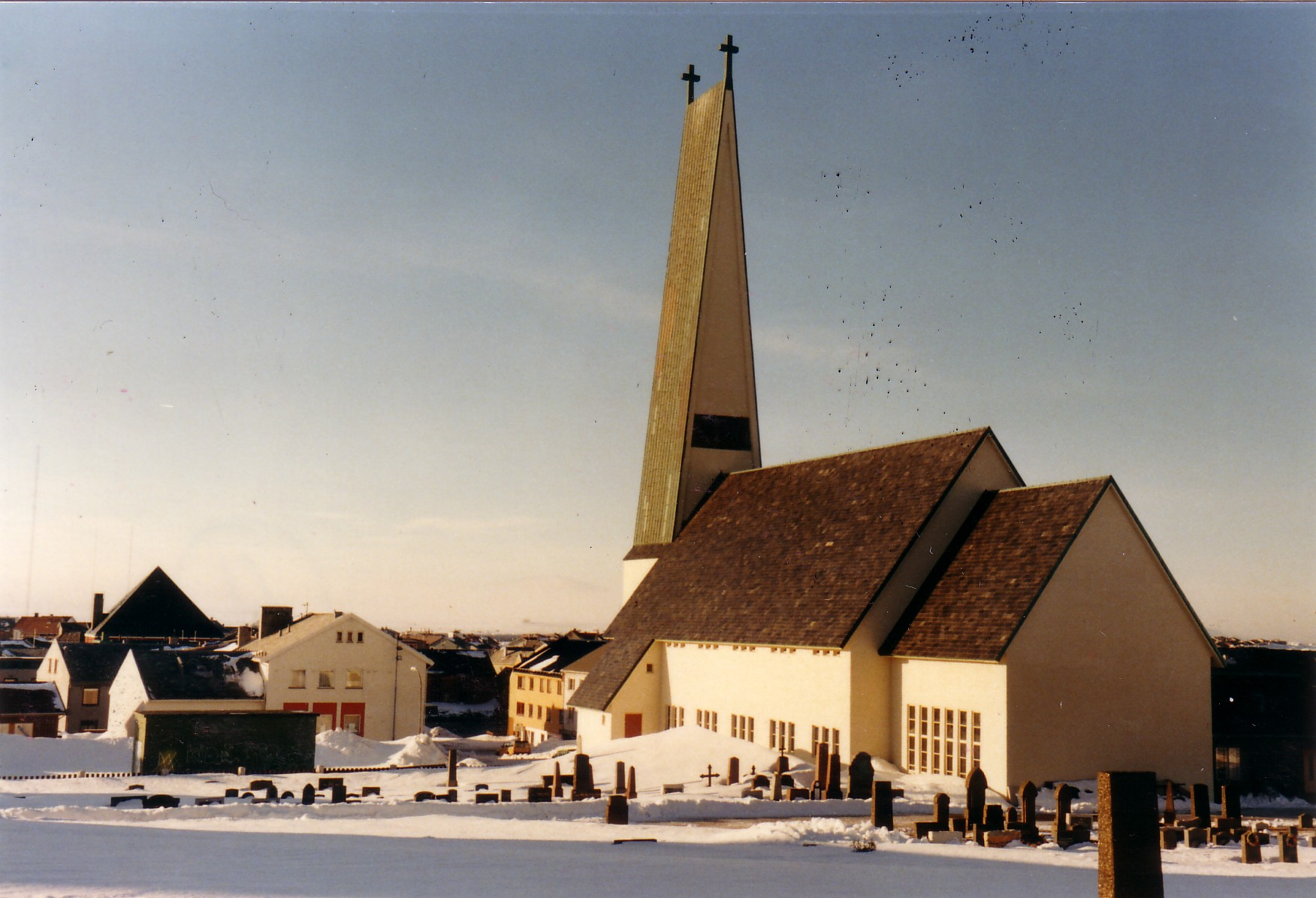 The Church of Vardø, North Norway